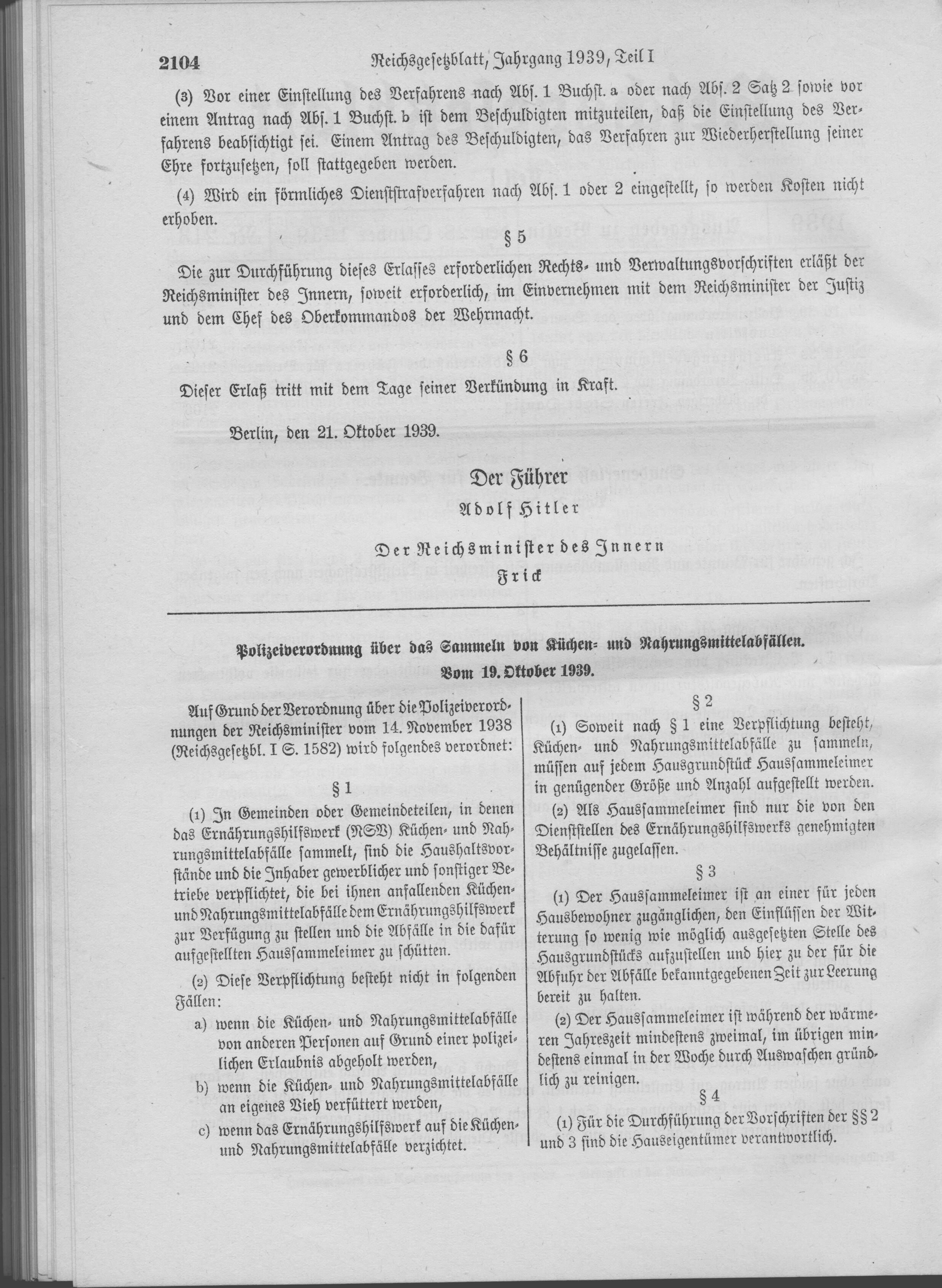 Scan from the Imperial Law Gazette of Germany, 1939, part 1